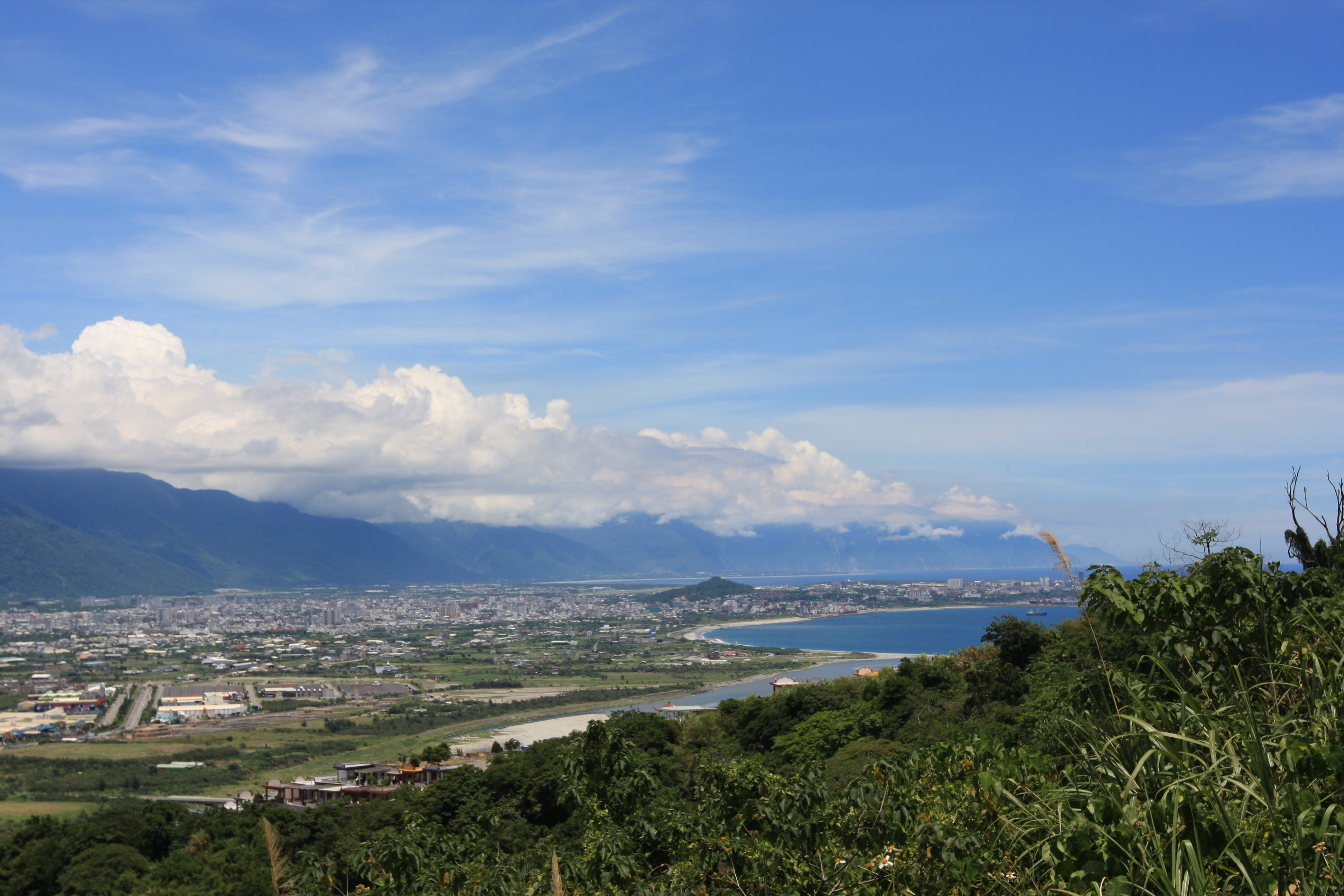 Looking north towards Hualien Plain and Central Mountain Range from Lingding on the Coast Mountain Range. 中文（台灣）: 在海岸山脈的嶺頂往北望花蓮平原與中央山脈。